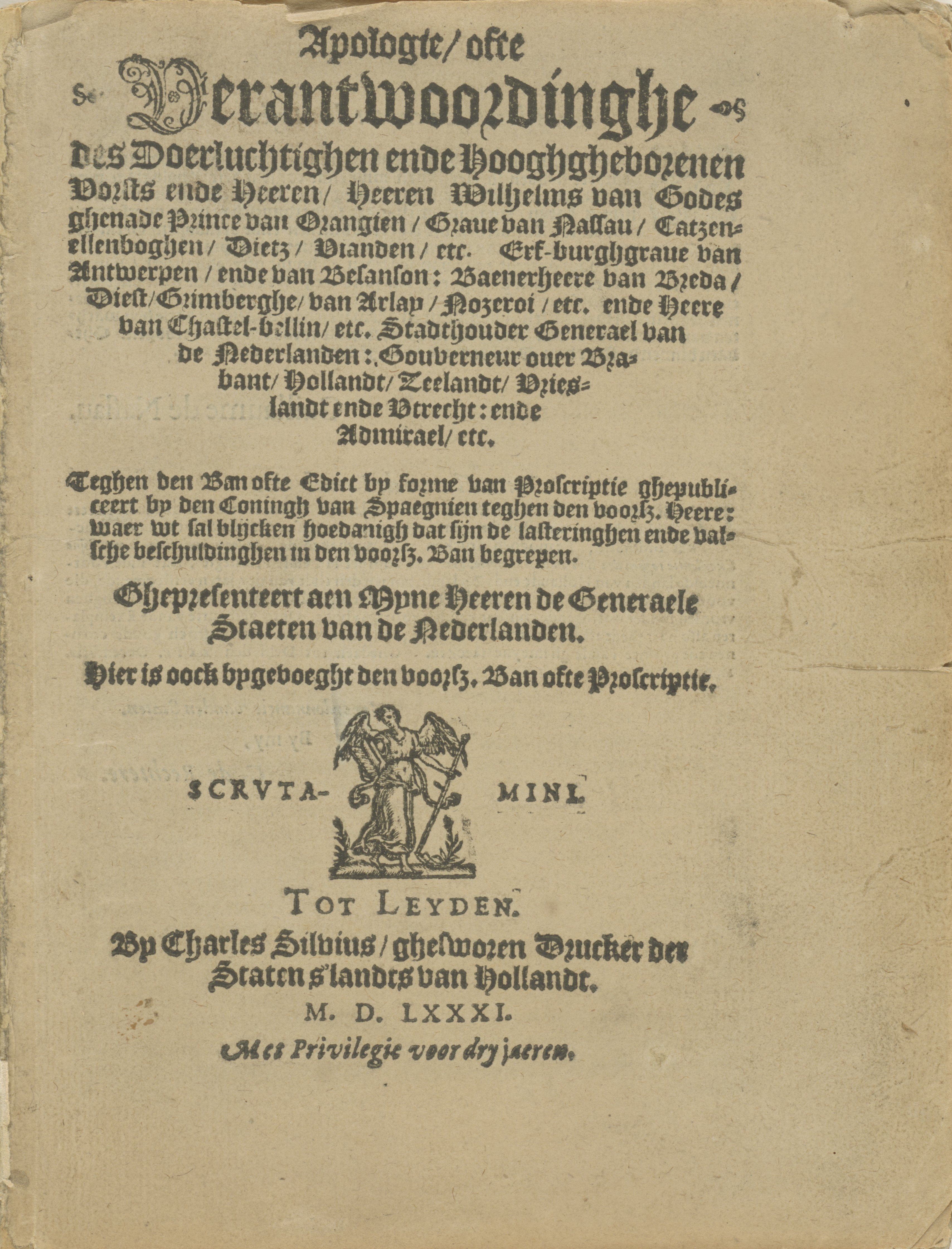 Pamflet waarin Willem van Oranje zich verdedigde tegen de banvloek die Filips II een jaar eerder over hem had uitgesproken. Boek van 130 pagina's; titelp. met midden onder lopende engel met staf en boek, gevolgd door 'Advertissement tot den leser' gesigneerd door de auteur (Willem I), waaronder het privilege; dan enkele brieven; de 'Apologie' zelf begint op pagina 13 met op de tegenoverliggende bladzijde gehelmd wapen omgeven door ranken en erboven "IE MAINTIENDRAI" eronder "NASSAV". Vanaf pagina 113 brieven, op schutblad tegenover pagina 130 zelfde wapen als vernoemd. In de tekst hier en daar aantekeningen, op laatste schutblad keerzijde namen in zwarte inkt. NG-84